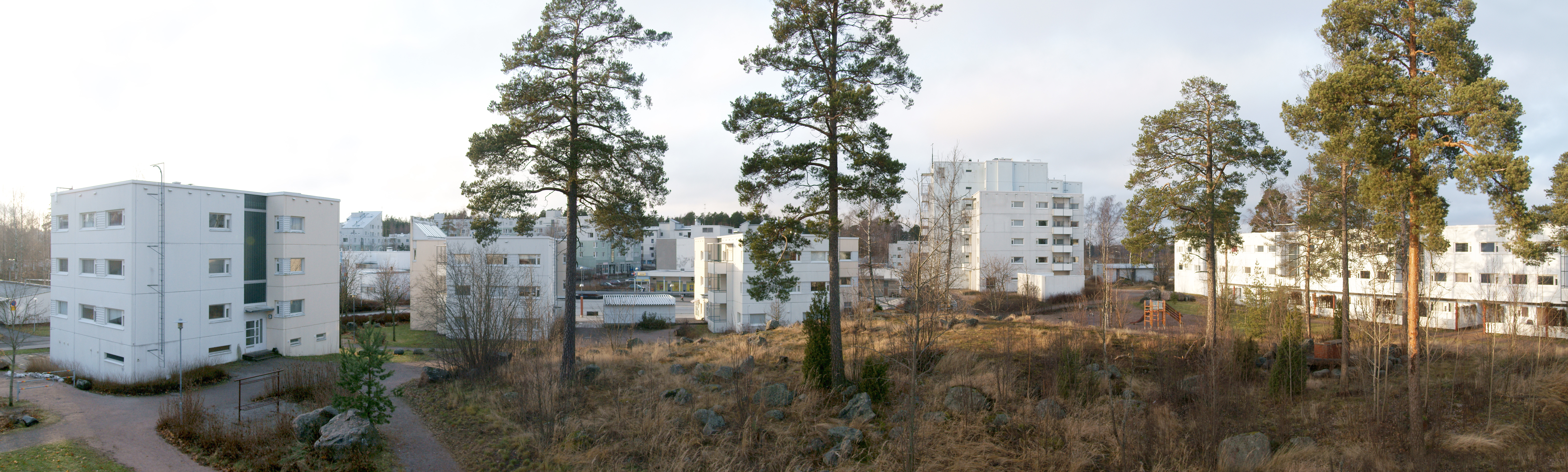 Panorama from Meri-Rastila, Helsinki.